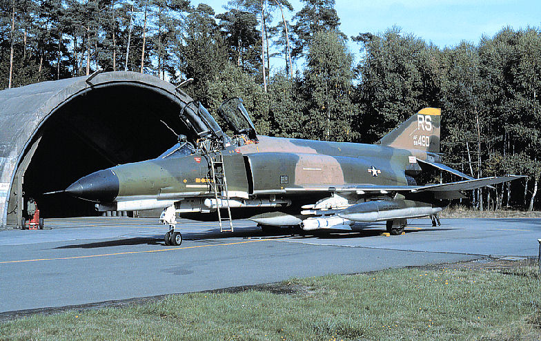 512th Tactical Fighter Squadron McDonnell Douglas F-4E-40-MC Phantom 68-0490 512 TFS 86 TFW at Ramstein AB, West Germany, 1978.